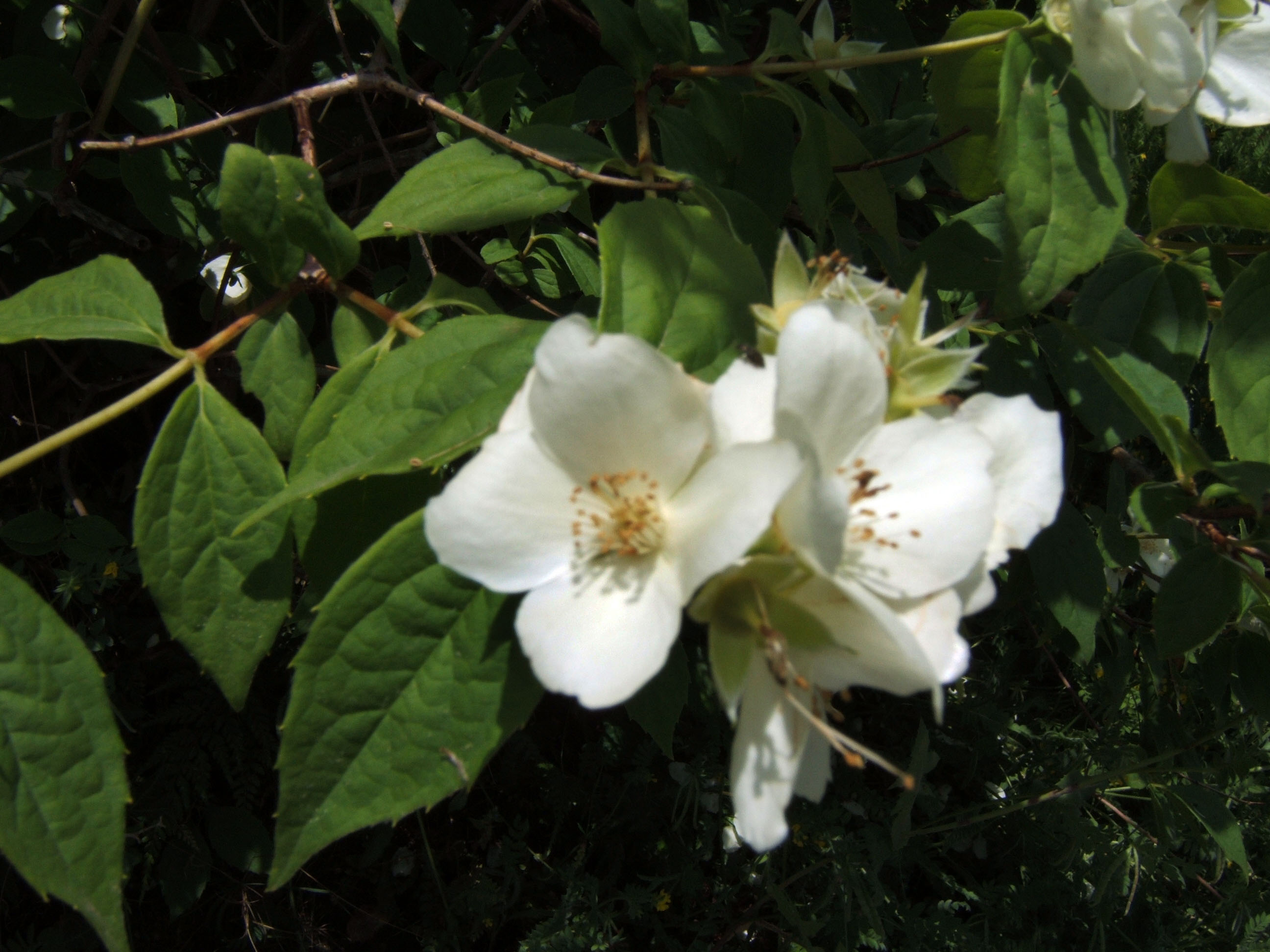 Philadelphus coronarius